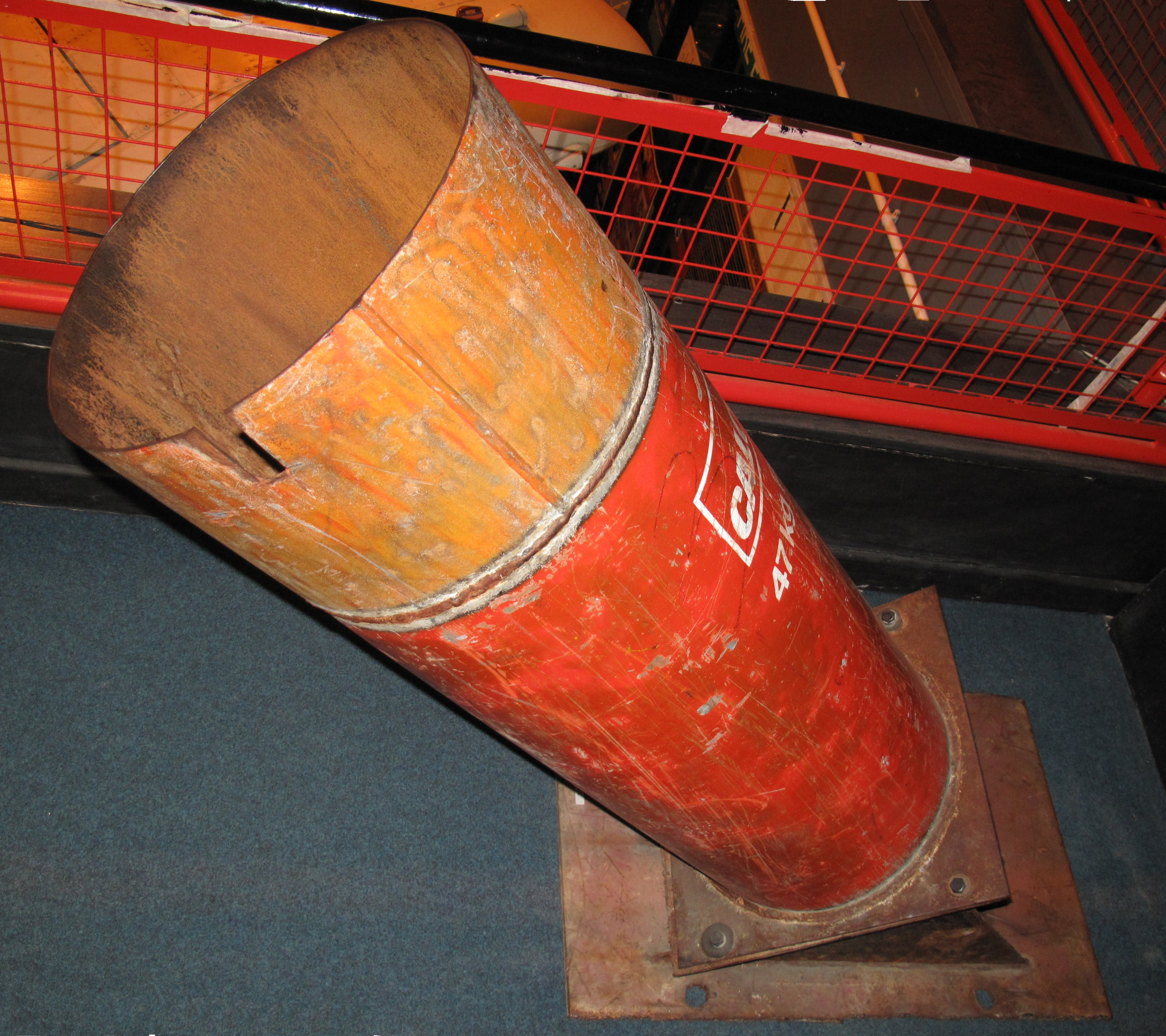 Photo of an IRA Barrack buster mortar